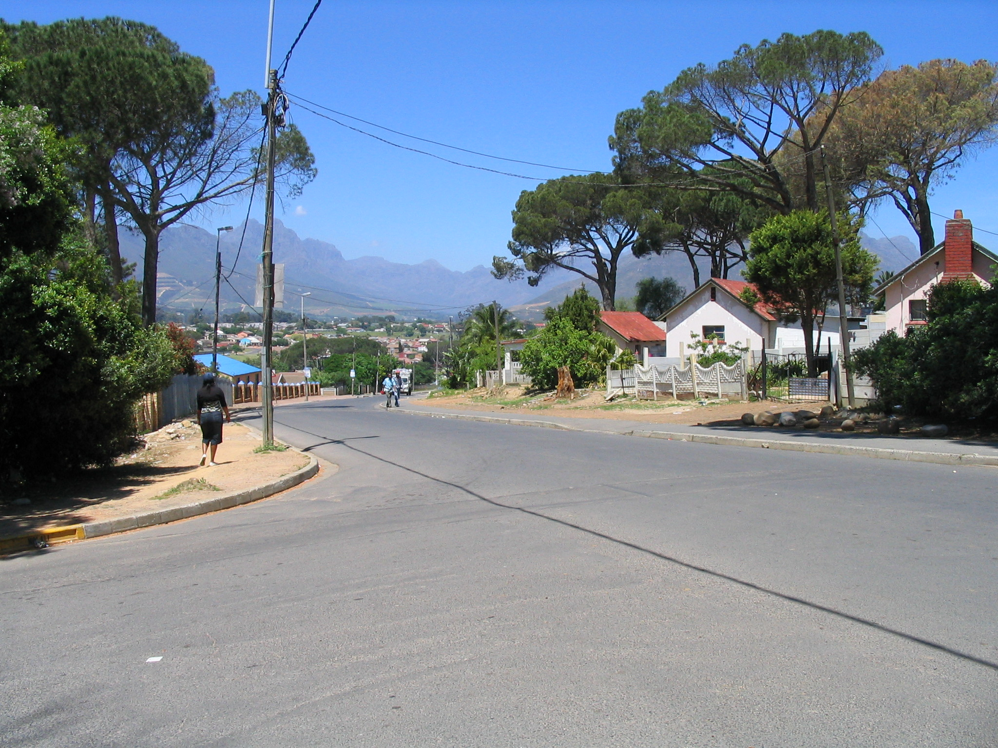 Masithandane Street, Kayamandi